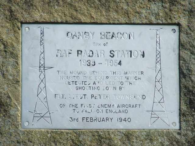 Danby Beacon, near to Houlsyke, North Yorkshire, Great Britain. Plaque on a stone to mark the spot of Danby Beacon R.A.F. Radar Station near to Houlsyke, North Yorkshire. For overall view see Link